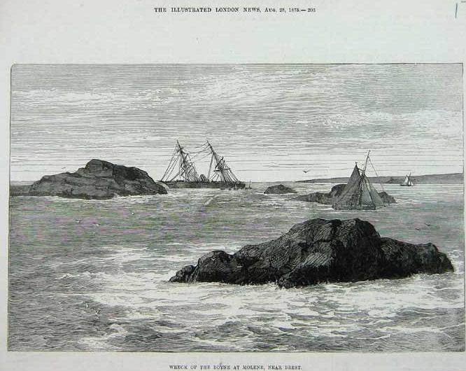 Illustrated London News engraving of the shipwreck of the packet boat Boyne foundering off the Ponant Islands, Brittany, in 1875